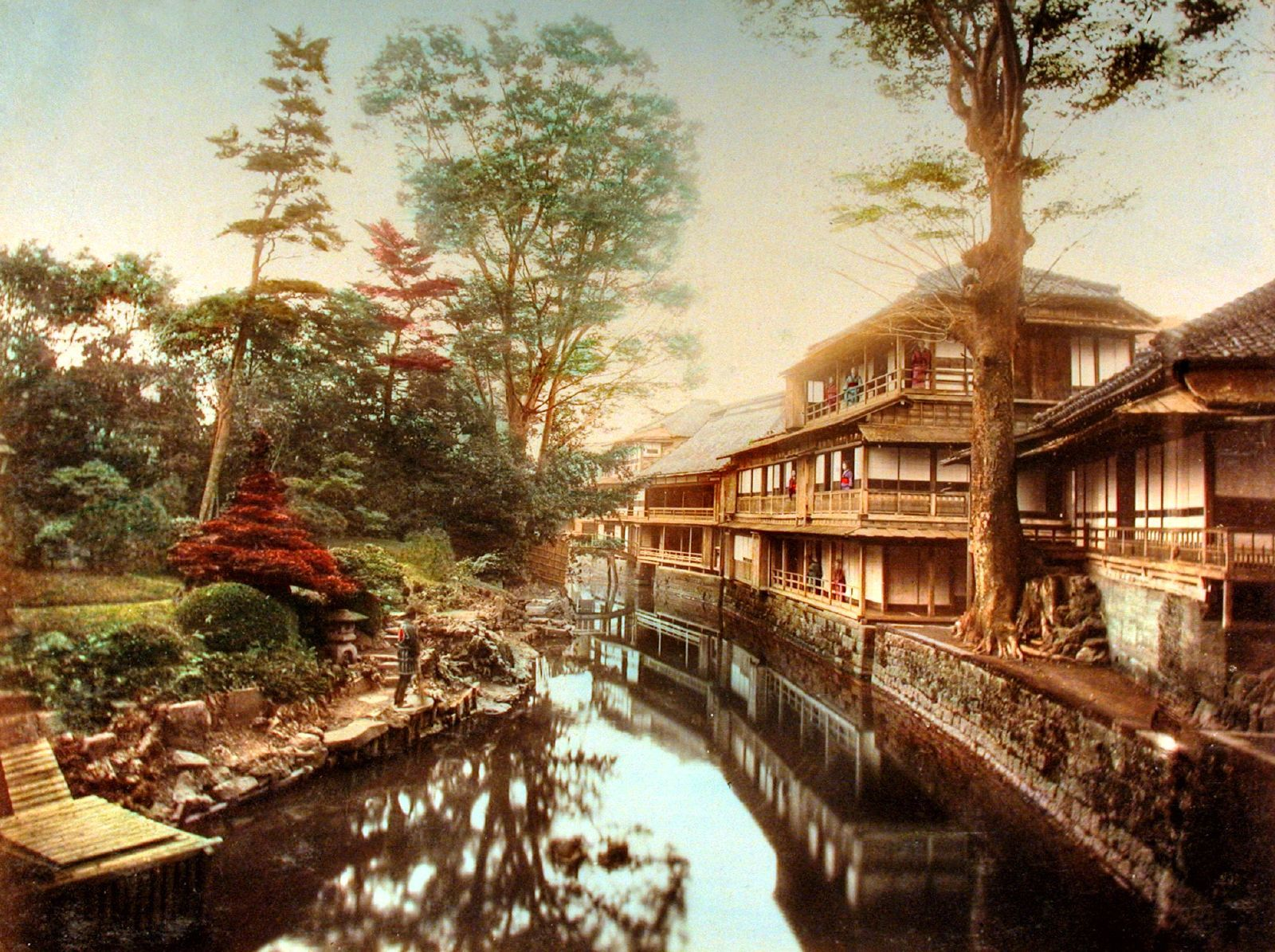 Old Tea House in Ohji, Tokyo, Japan